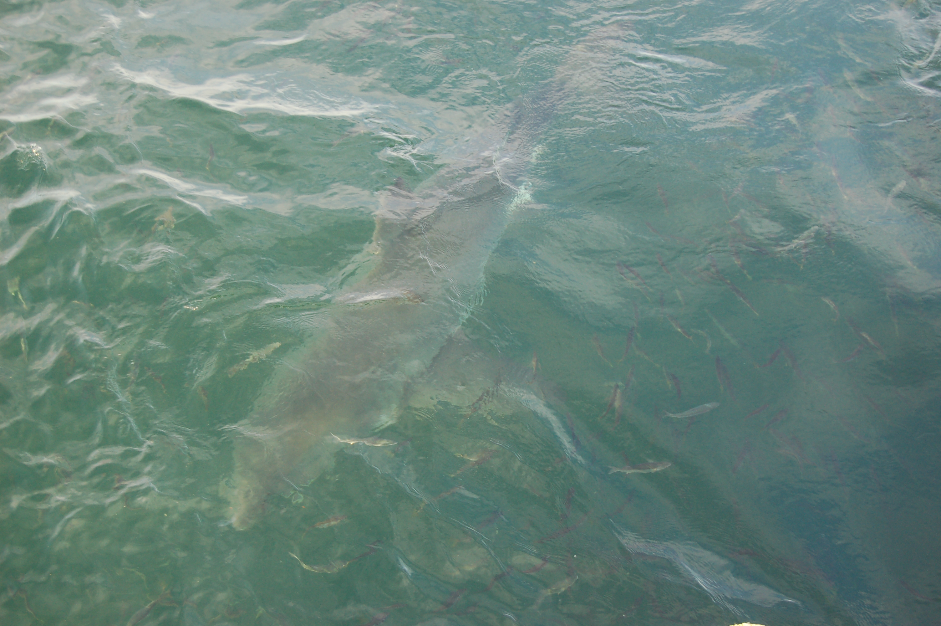 White Shark Cage Diving, Gansbaai